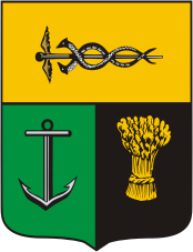 Taganrog (Rostov oblast), coat of arms (1811)